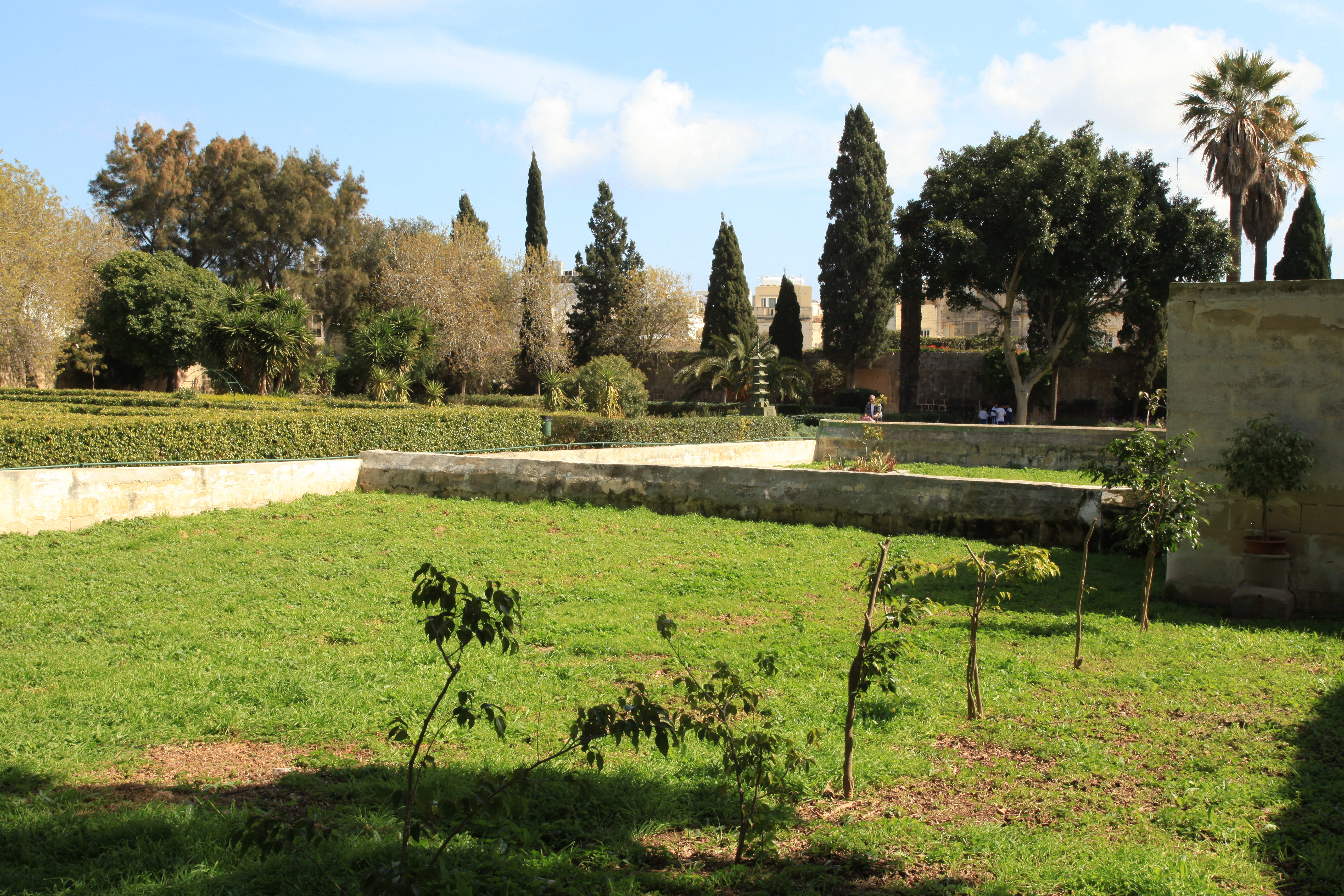 San Anton Gardens in Attard, Malta